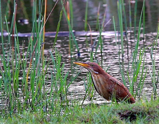 An adult Cinnamon Bittern Ixobrychus cinnamomeus in breeding plumage on a dyke beside a flooded field prepared for paddy planting. This is in Jaunpur district, Uttar Pradesh, India.